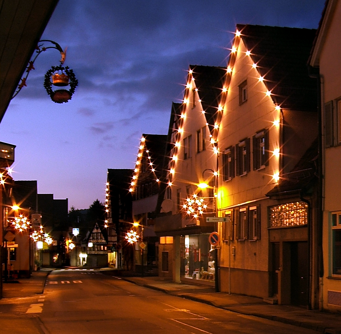 Christmas lighting in Remshalden-Geradstetten, Germany; night photograph.